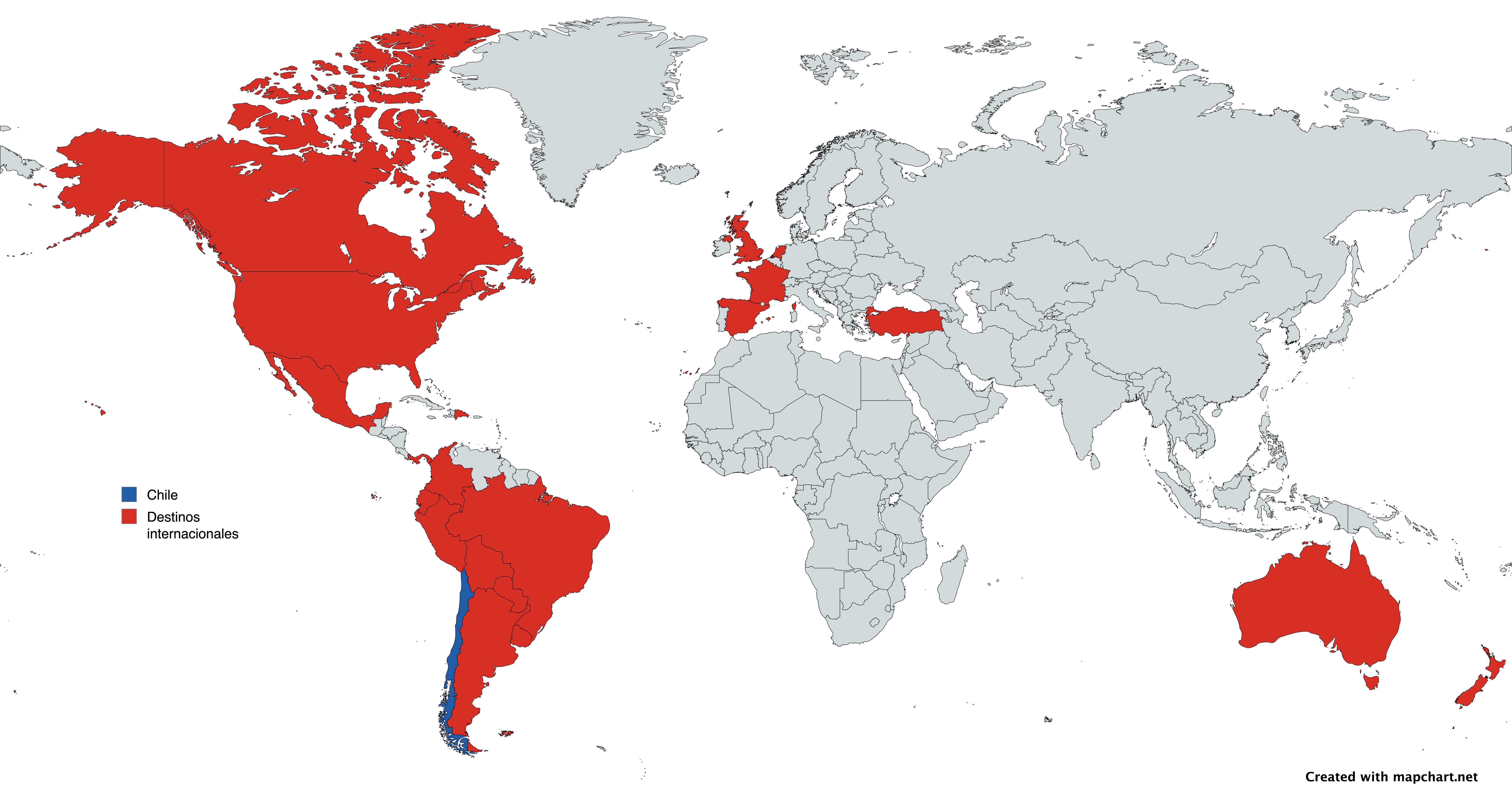 Download all the world flags here